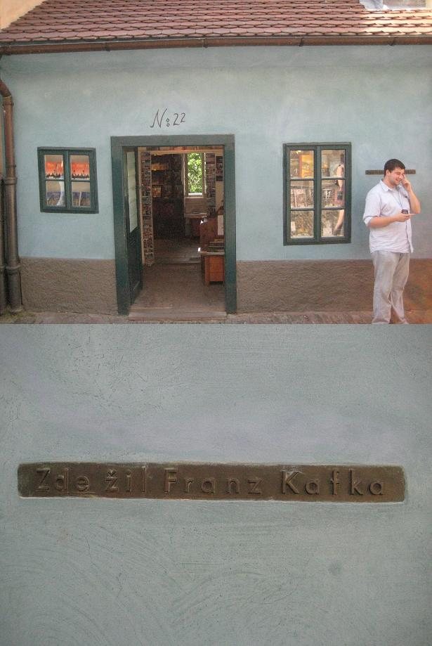 A picture taken on June 27, 2008 in Prague, Czech Republic of the former house of Franz Kafka. This building now stands as a memorial, and also contains various Kafka-esque items for sale.